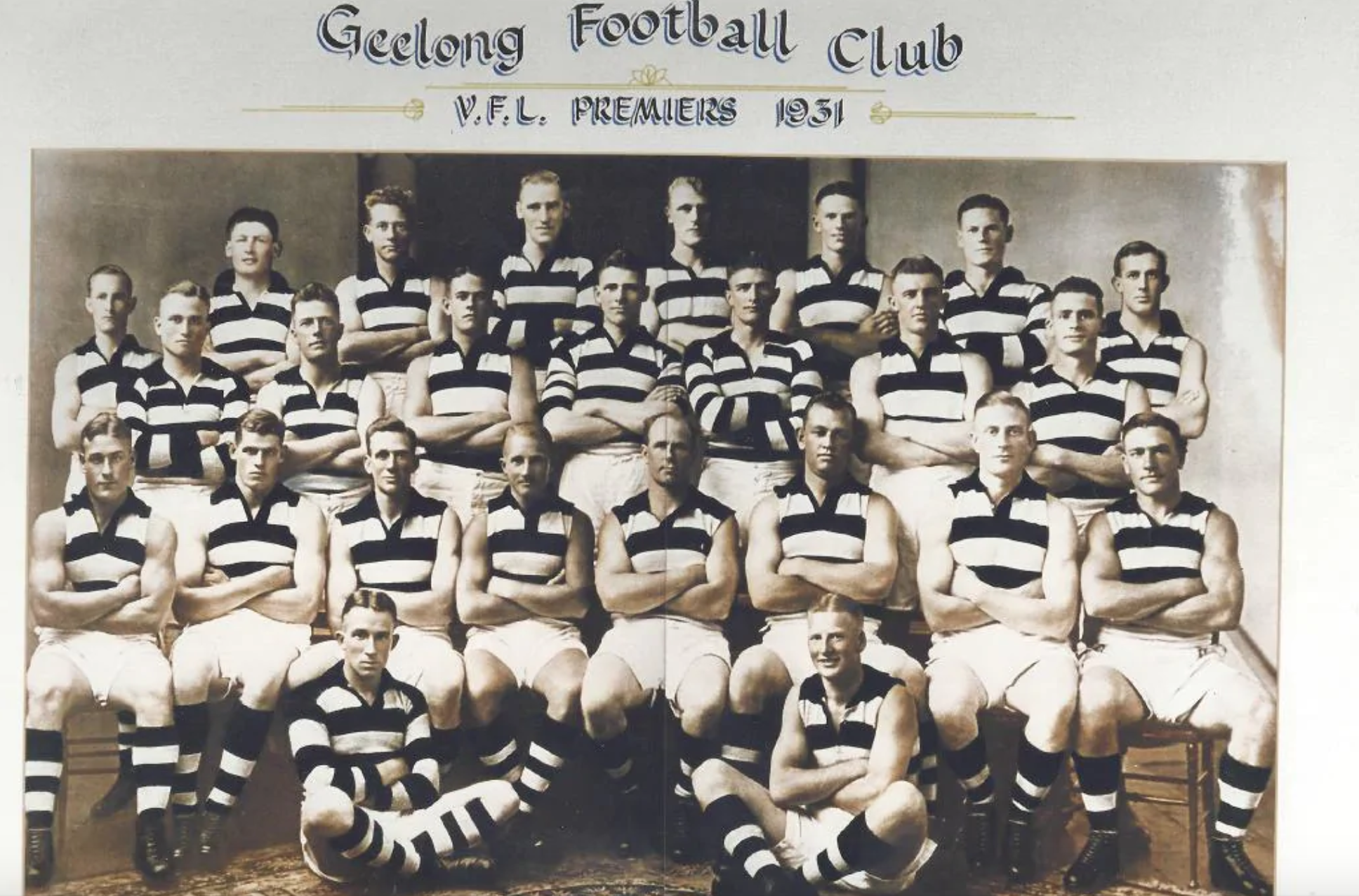 Geelong Football Club VFL premiership team in 1931